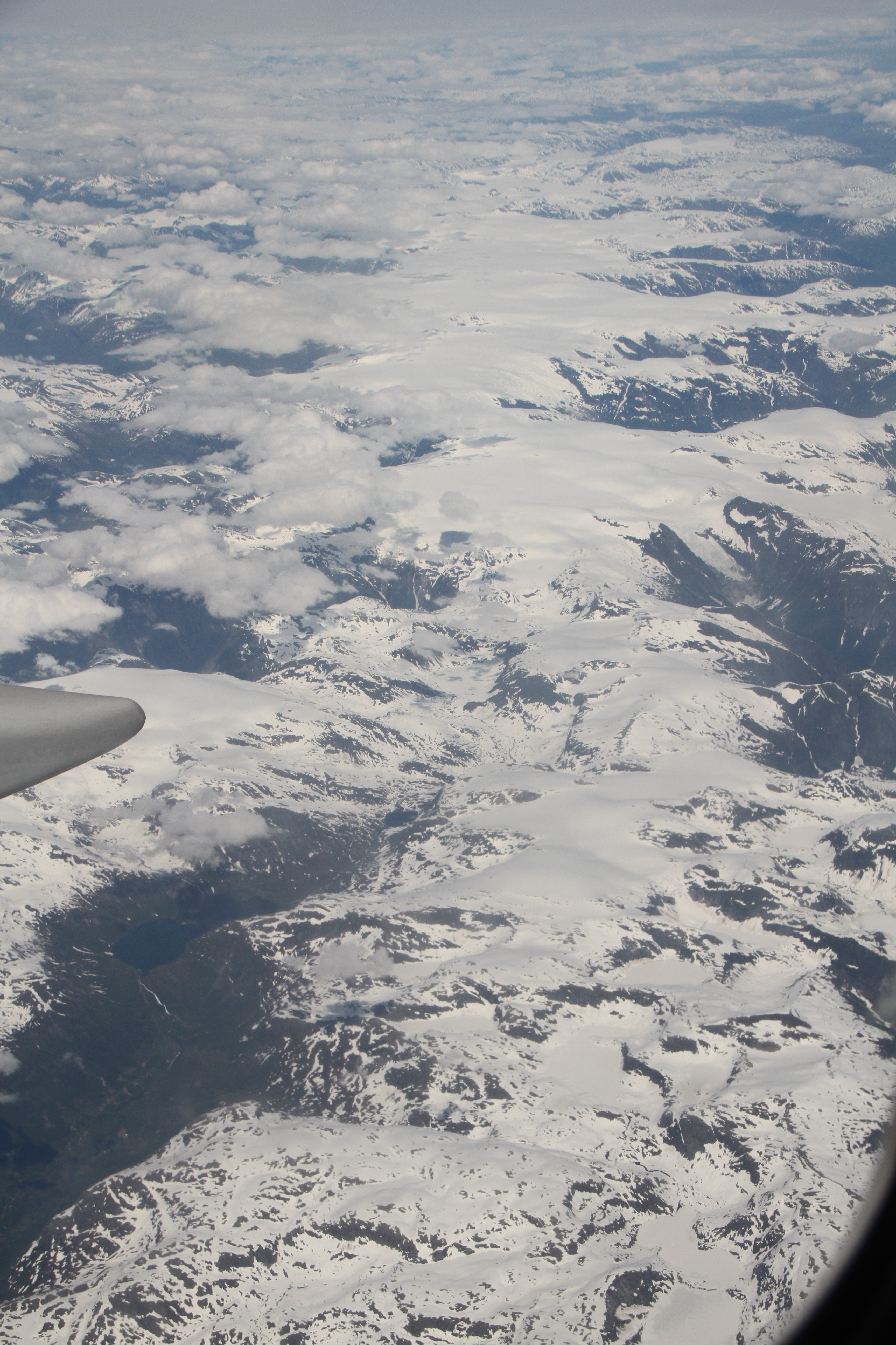 Jostedalsbreen glacier, seen from the south towards north. Sogn & Fjordane, Norway